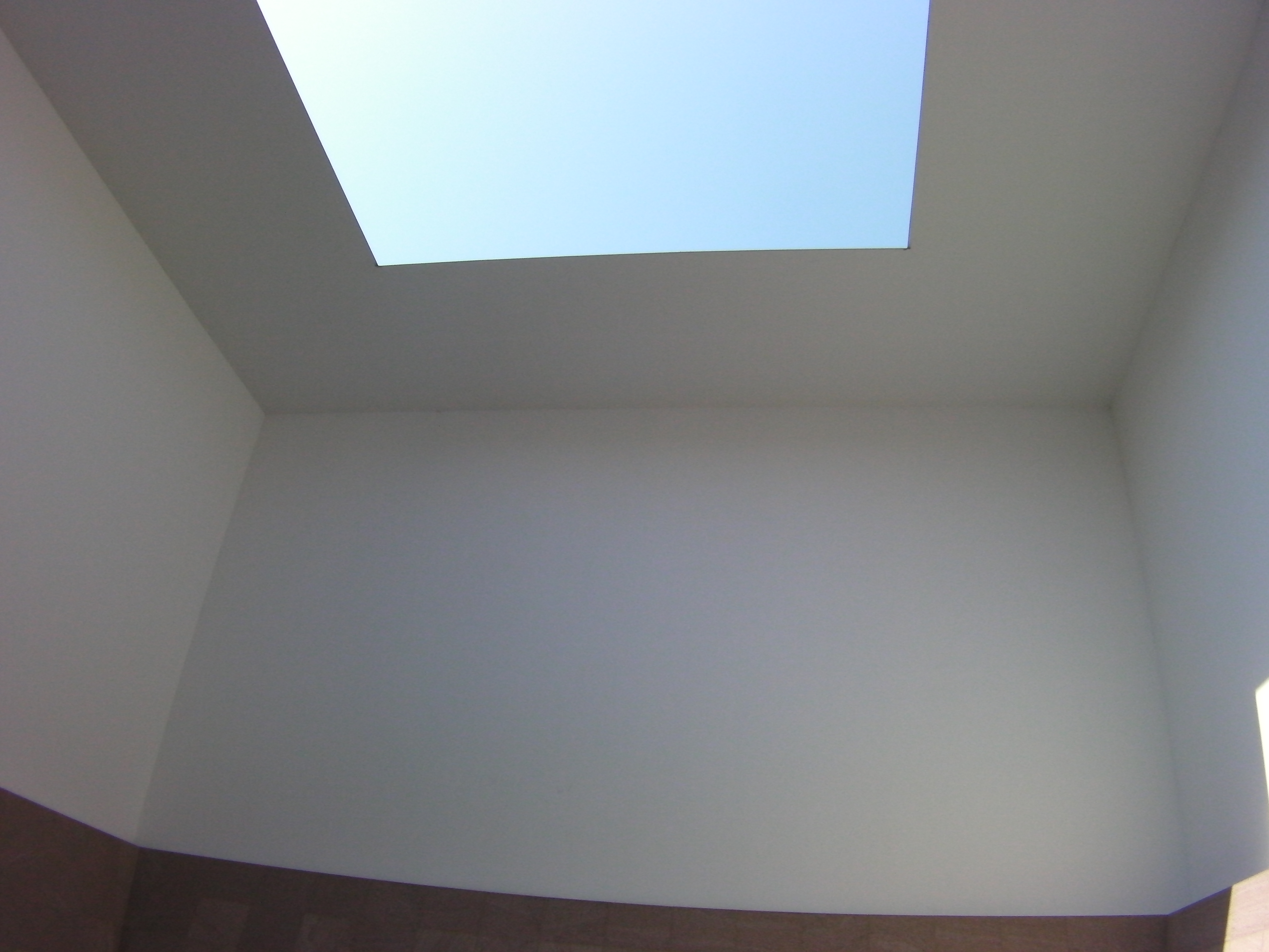 'Blue Planet Sky' in the Turrell's room at 21st Century Museum of Contemporary Art, Kanazawa. daytime.